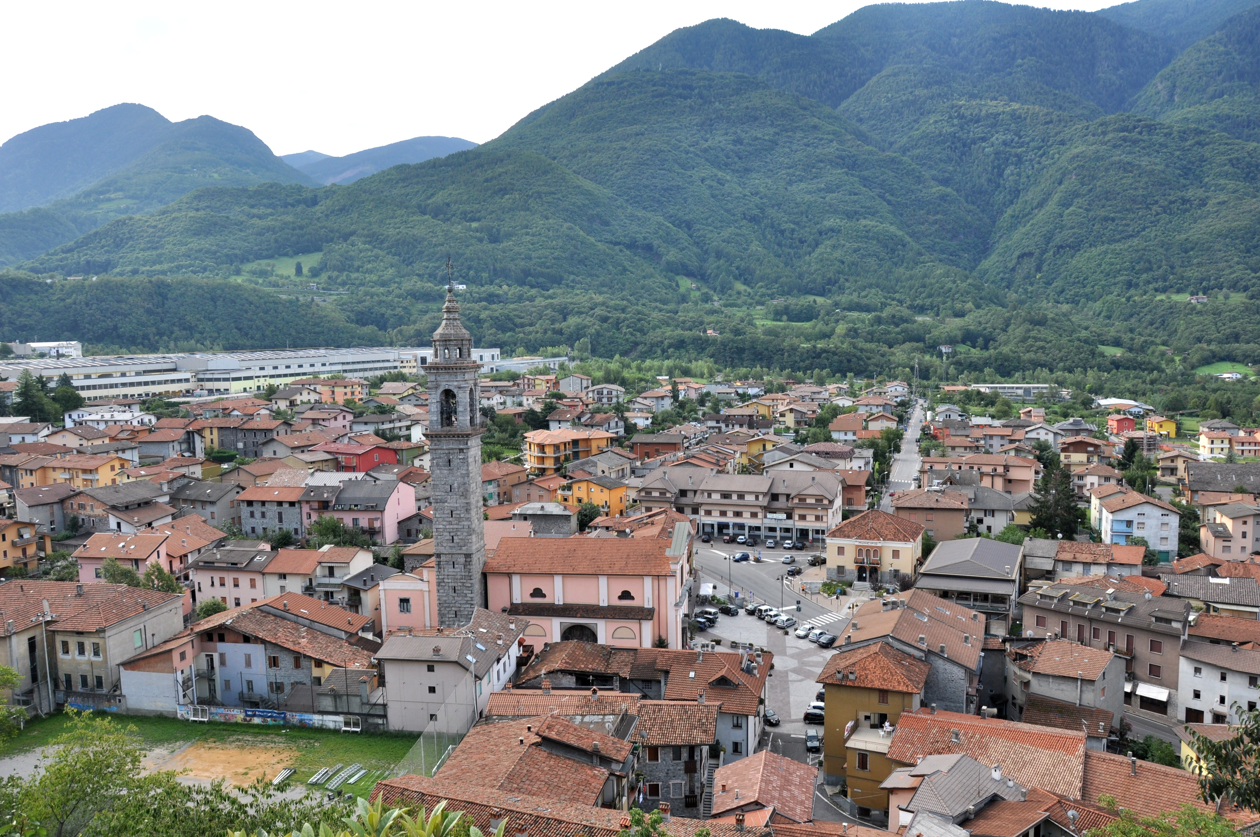 Berzo Inferiore (Brescia - Italy). View from San Lorenzo.